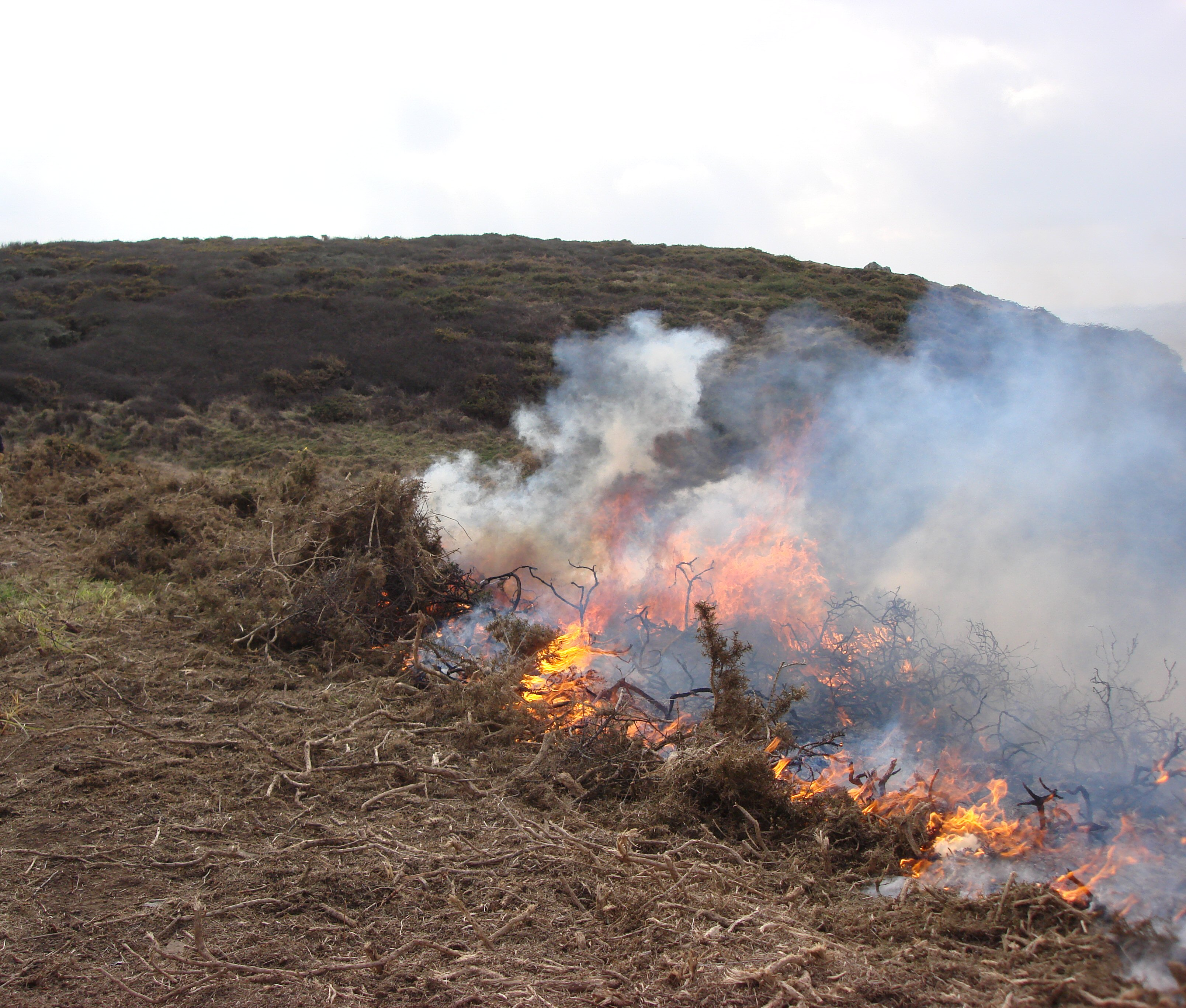 Cornwall Heathland Swailing Controlled Burning Fire